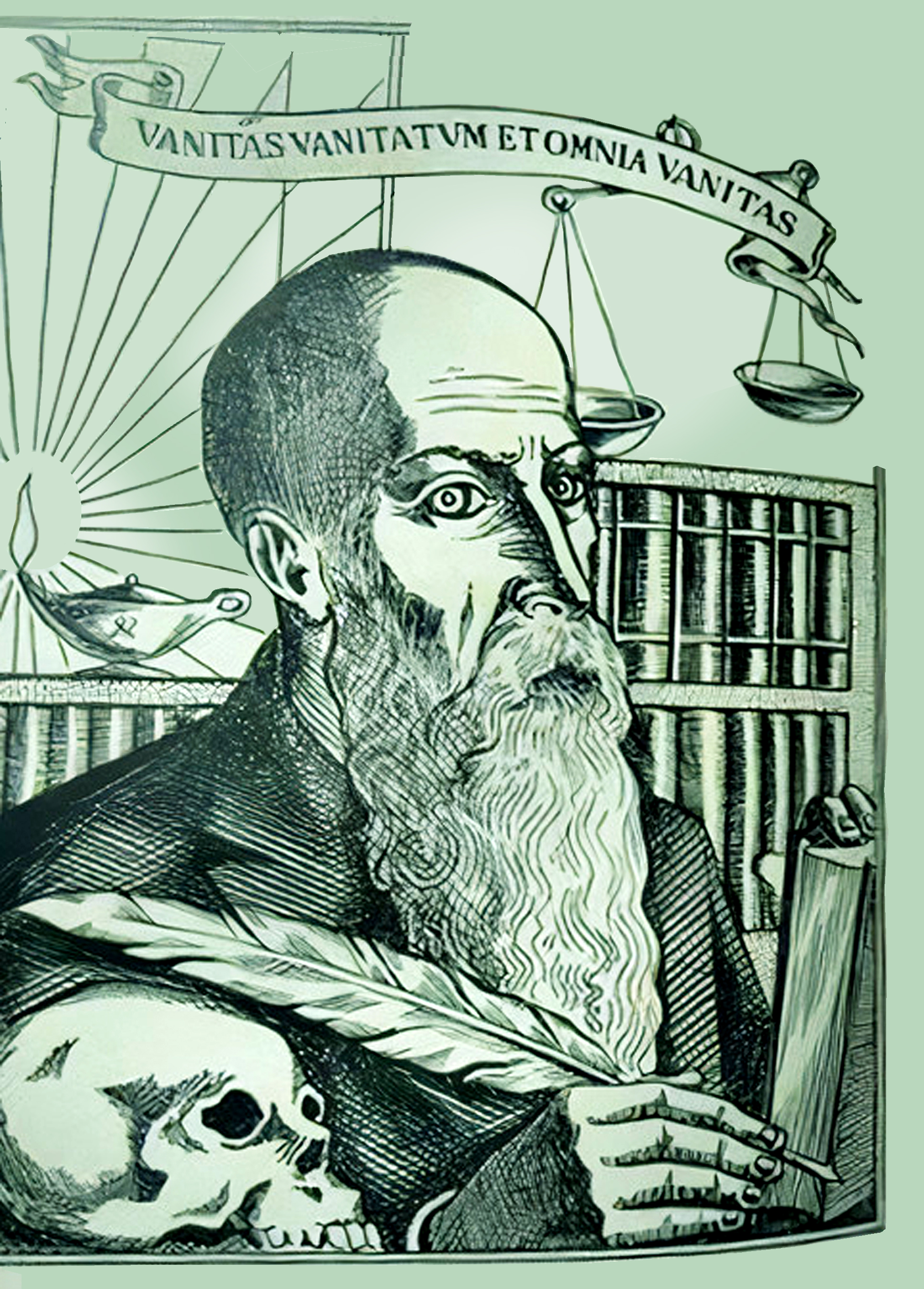 Portrait of the Brazilian-Portuguese philosopher Matias Aires de Eça. The portrait is of Matias approximately 50 years old.